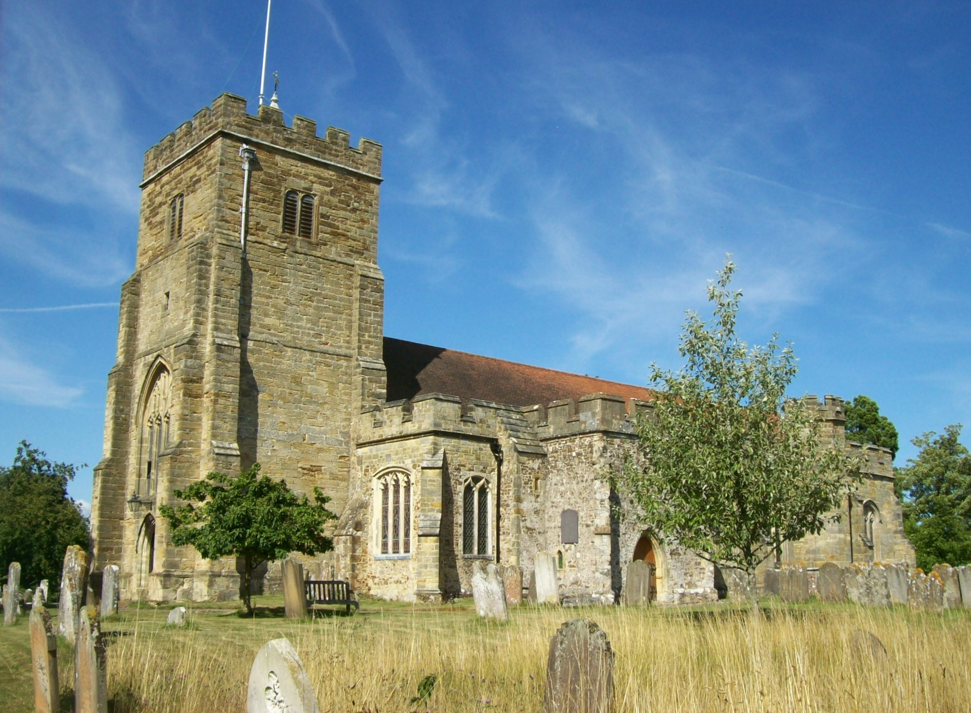 St George's parish church, Benenden, Kent, seen from the southwest